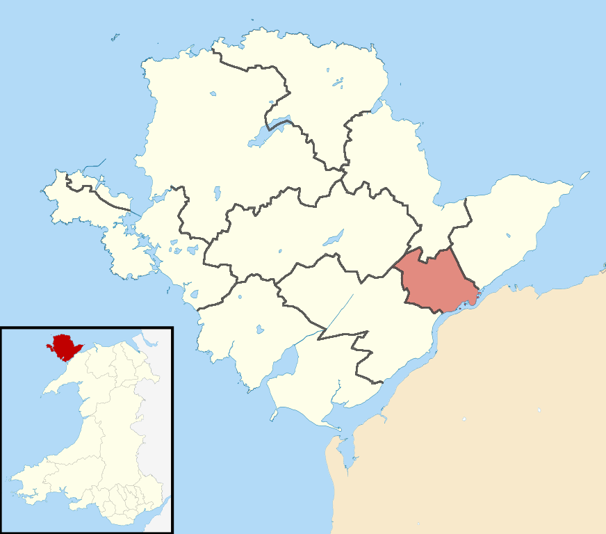 Location map of the Aethwy electoral ward (created 2012) on the island of Anglesey / Ynys Mon